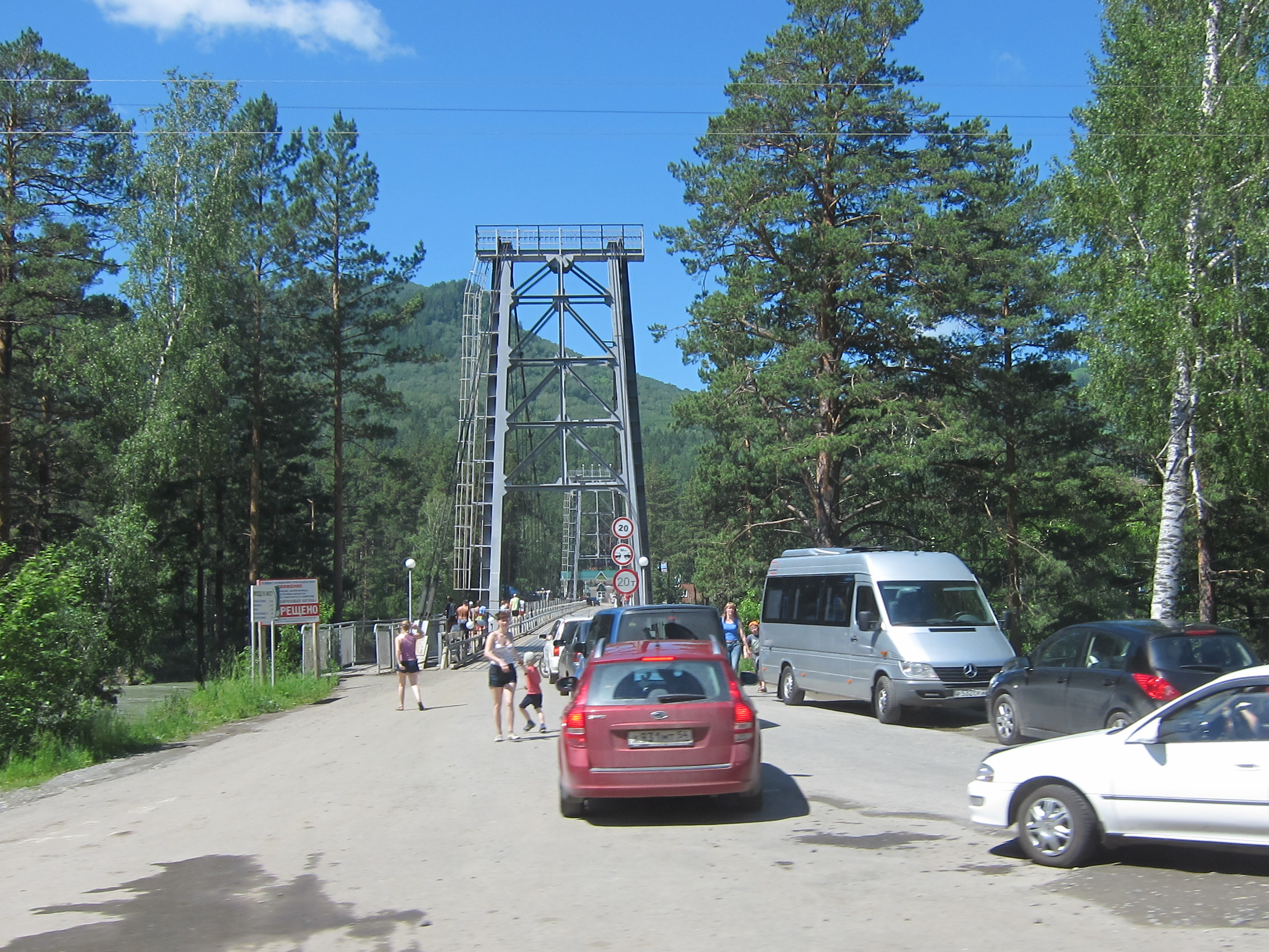 Bridge over the Katun River in Mayminsky District of the Altai Republic, near the Biryuzovaya Katun resort